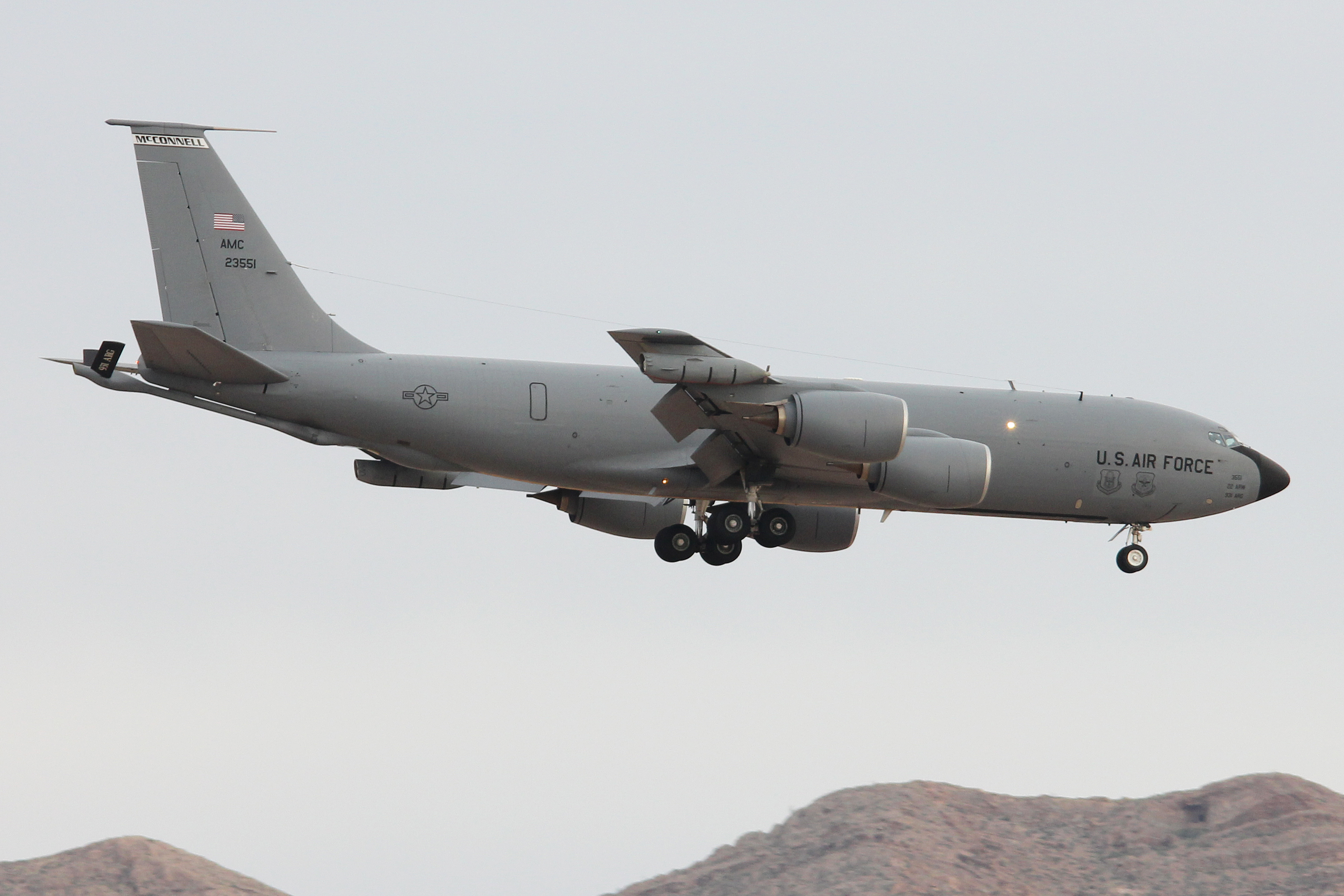 c/n 18534, l/n 602. Full US military serial 62-3551. Operated by the 22nd Air Refueling Wing based at McConnell AFB, KS. Returning from a mission as part of Red Flag 16-2. Nellis AFB, NV, USA. 3rd March 2016